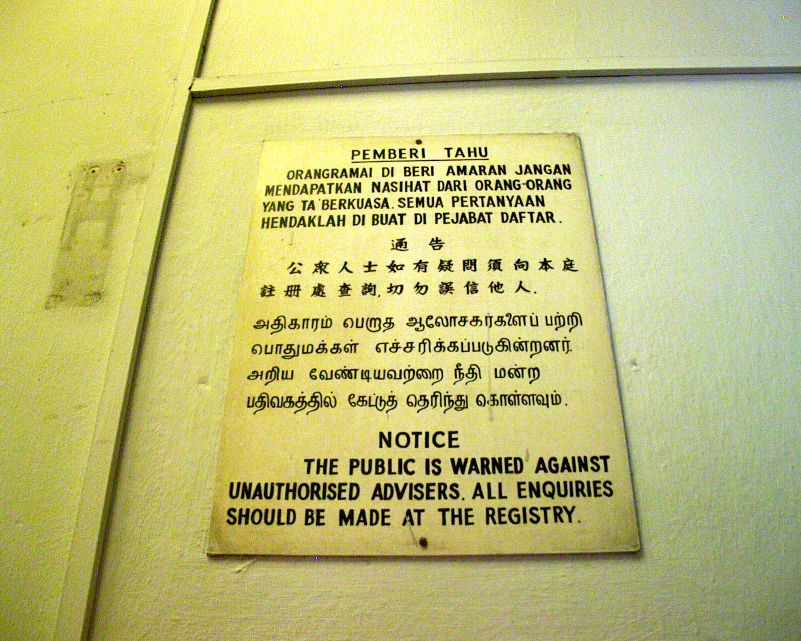 A warning sign in Singapore's four official languages at the Old Supreme Court Building, Singapore. The English text reads: "Notice. The public is warned against unauthorised advisers. All inquiries should be made at the Registry."